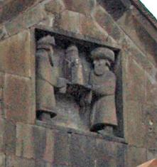 Haghpat monastery. Surb Nshan church. Armenia